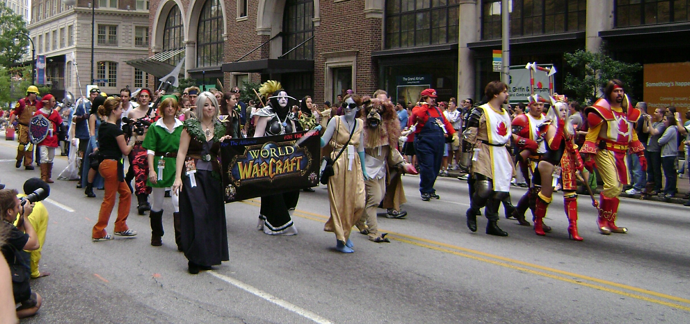 People in World of Warcraft costumes, at DragonCon Parade in Atlanta in 2009.